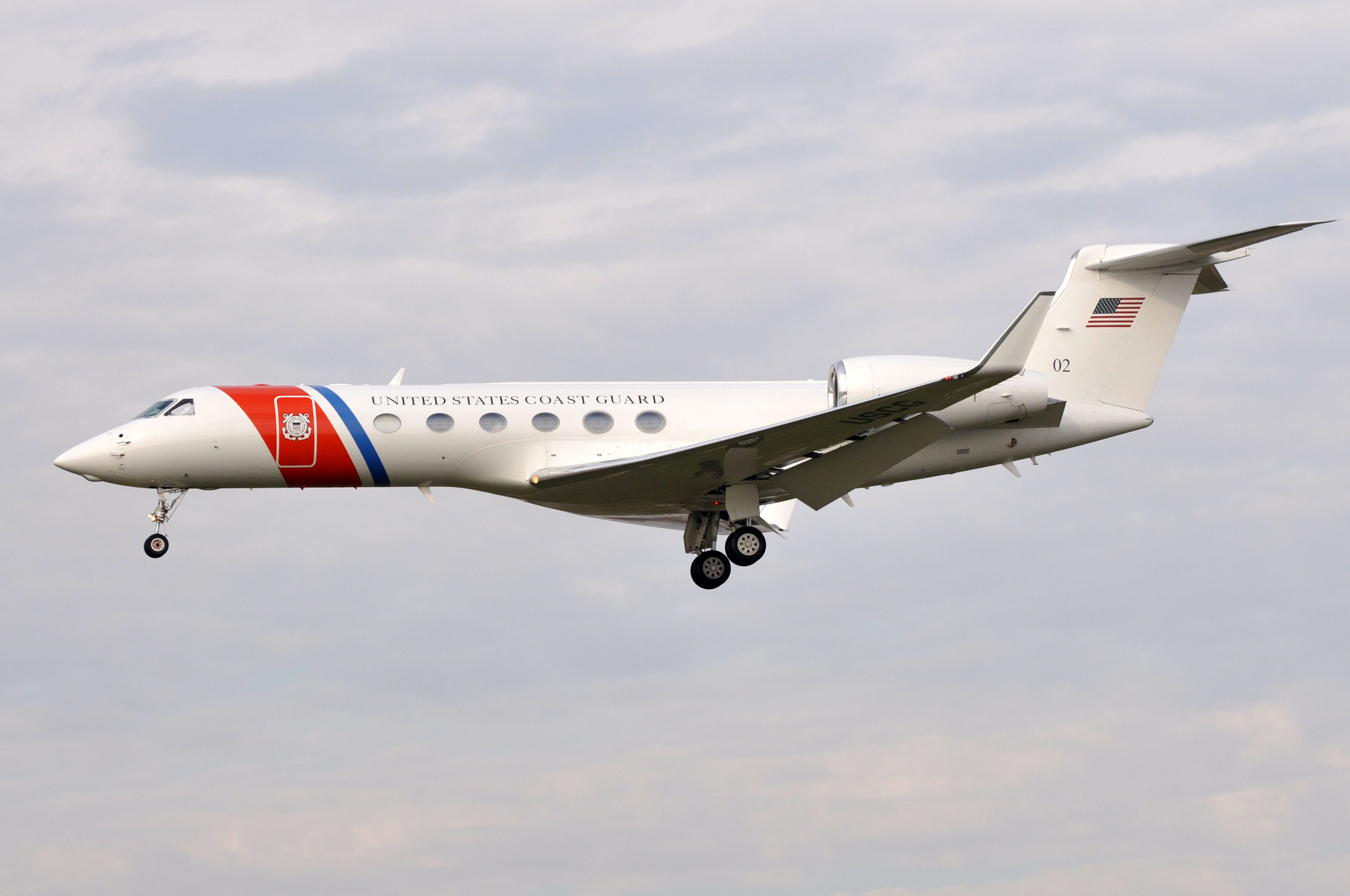 MSN 638 Gulfstream V UNITED STATES COAST GUARD BCN AIRPORT EX Jet Aviation Business Jets AG AS HB-IIY / UNITED STATES COAST GUARD AS N888HE